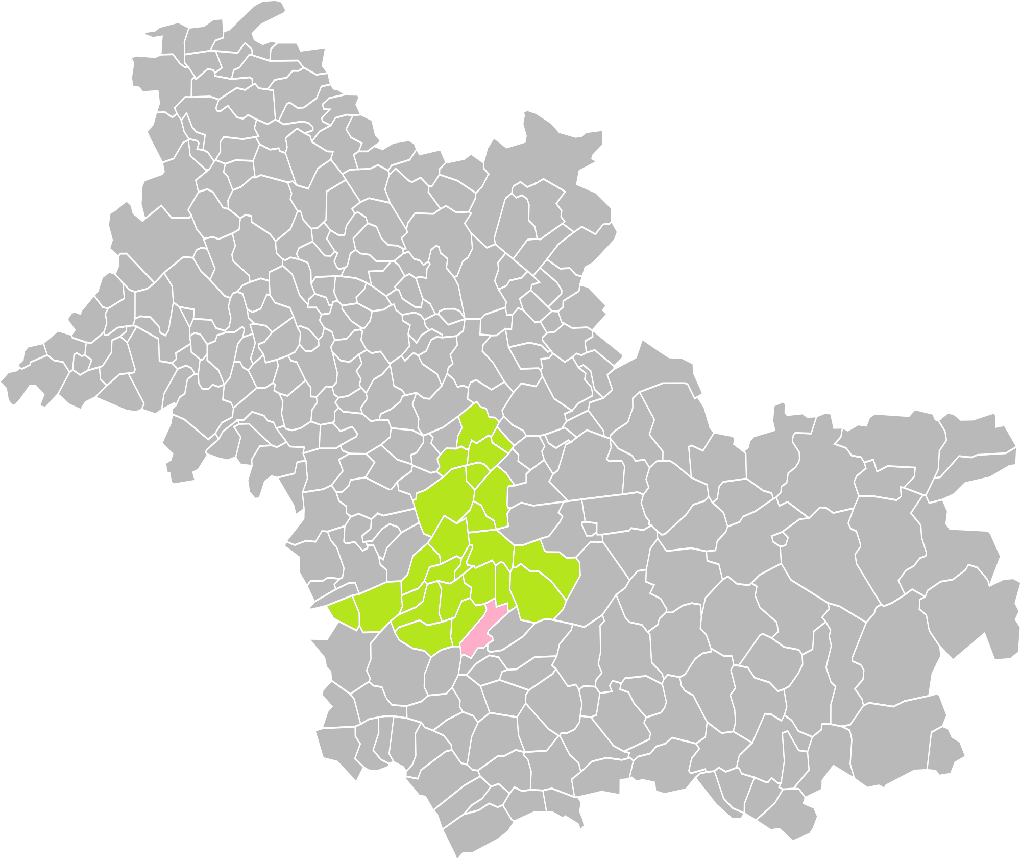 Location of the commune of Feings in the cantons of Blois (I-II-III) et Vineuil (Loir-et-Cher)